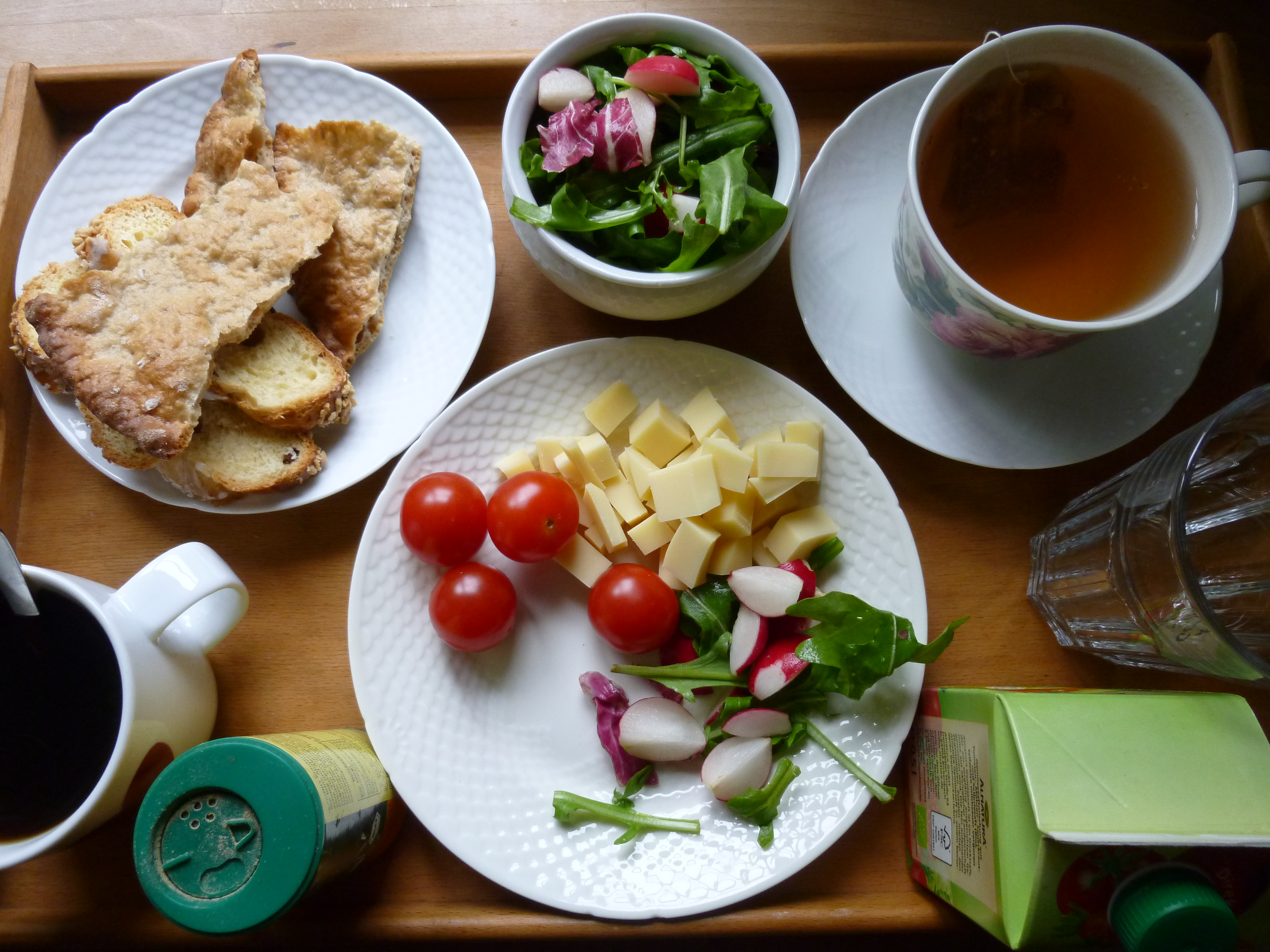 Sunday brunch